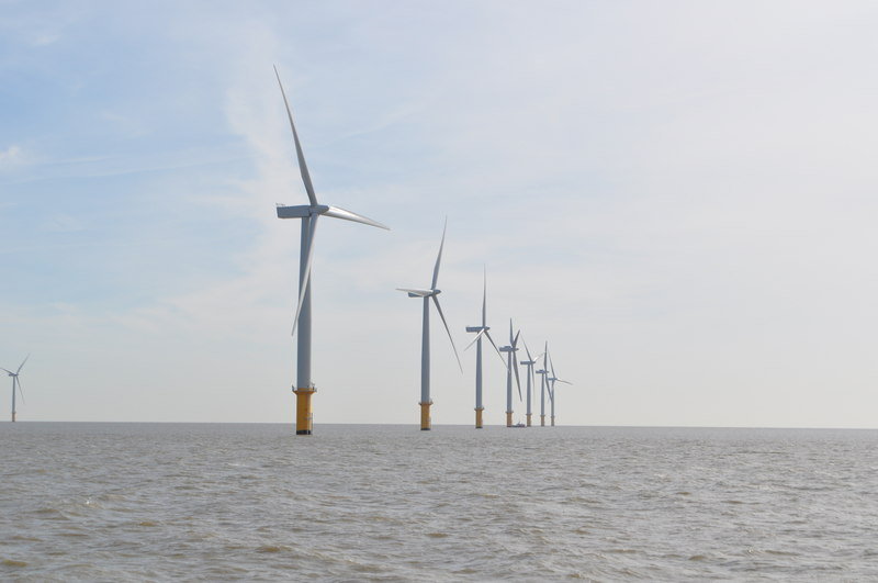 Gunfleet Sands Offshore Wind Farm, 4 km from Gunfleet Sand [other Features], Essex, Great Britain. Gunfleet Sands offshore wind farm 172MW wind farm 7 km off the Clacton-on-Sea and Holland Essex coast in the Northern Thames Estuary, commissioned on 15 June 2010. It has 48 Siemens wind turbines of 3.6 MW capacity each. It is sited on the large sand bank, once (and still) a shipping hazard. Due to good tides and the need to avoid Harwich and Felixstowe the PS Waverley passed close to the windfarm.